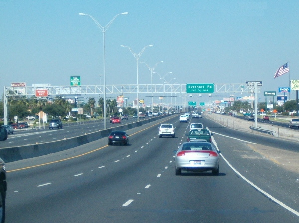 View of State Highway 358 westbound in Corpus Christi, Texas.